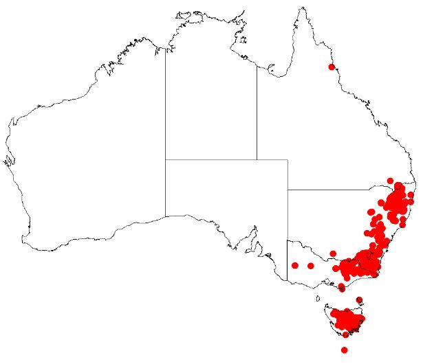 Hakea microcarpa Occurrence data downloaded from AVH on 22 November 2018 using